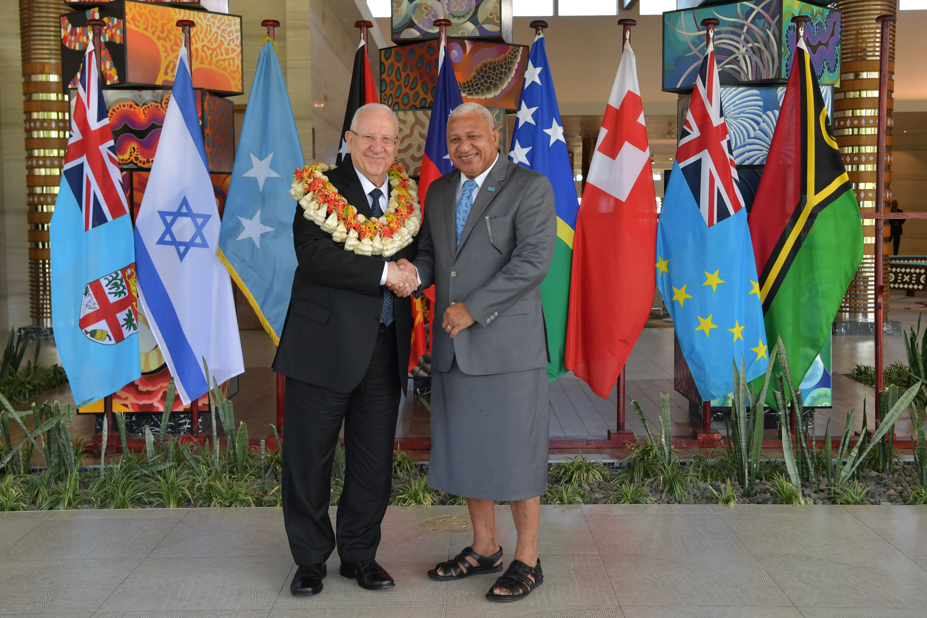 The President of Israel, Reuven Rivlin landed in Fiji, was welcomed on the island in a traditional ceremony and led a first summit meeting of the Pacific nation's. Thursday, February 20, 2020. Credit Photo: Kobi Gideon / GPO.